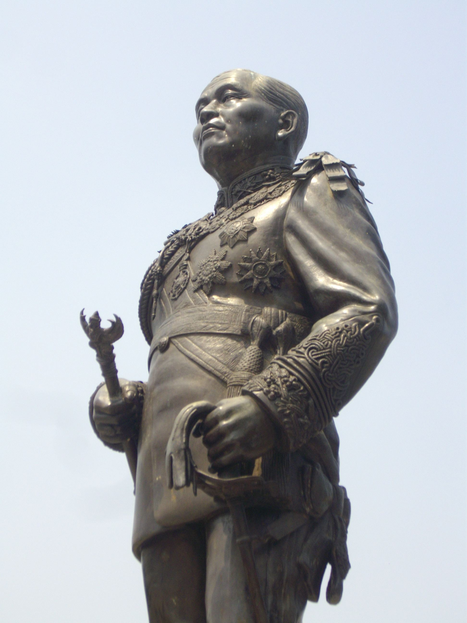 Monument of Field Marshal Sarit Dhanarajata, former Prime Minister of Thailand (1959-1963), in Khon Kaen Province, Thailand.